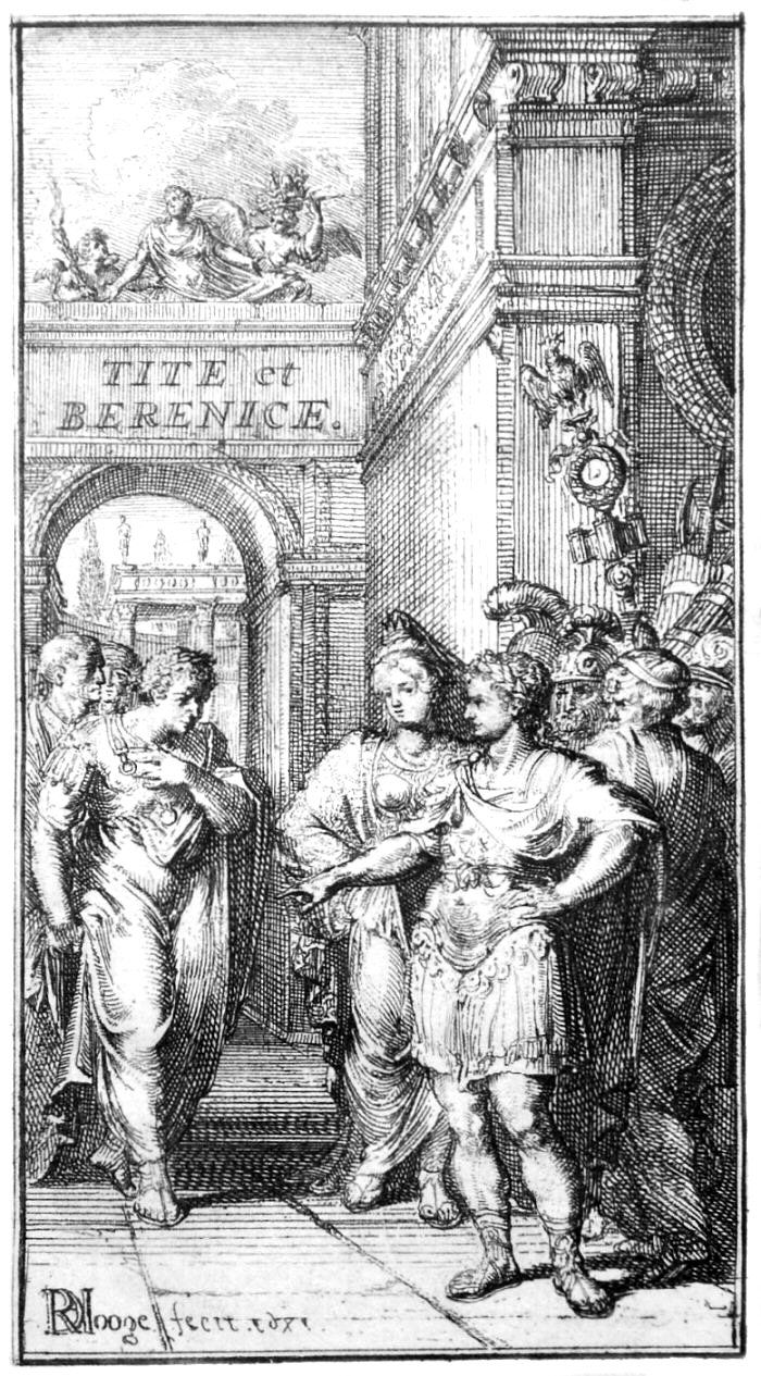 Frontispiece depicting Act V, scene 5, of Pierre Corneille's 1670 play Tite et Bérénice; published in 1671 by Abraham Wolfgang in Amsterdam, "after the copy printed in Paris" (etching; 6 cm x 11.5 cm; printed on paper; Taylor Institution Library, Oxford; cat. no. Vet.Fr.I.A.550)